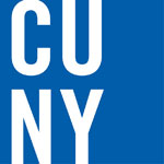 City University of New York system logo.